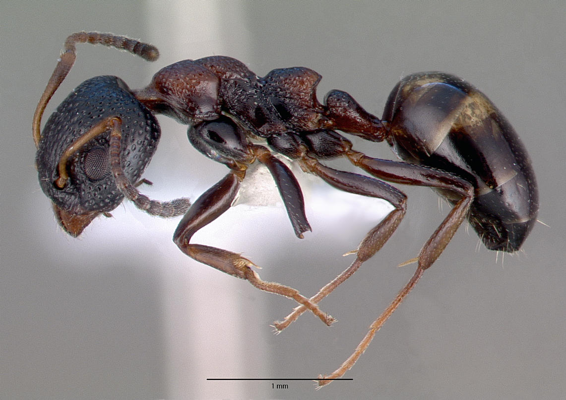 Profile view of ant Dolichoderus sibiricus specimen casent0008644.